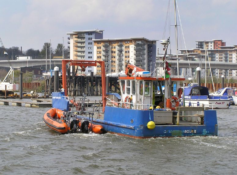 Cardiff Harbour ll heads up the River Ely.